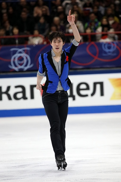 Photos – World Championships 2018 – Men (Keiji TANAKA JPN – 13th Place)